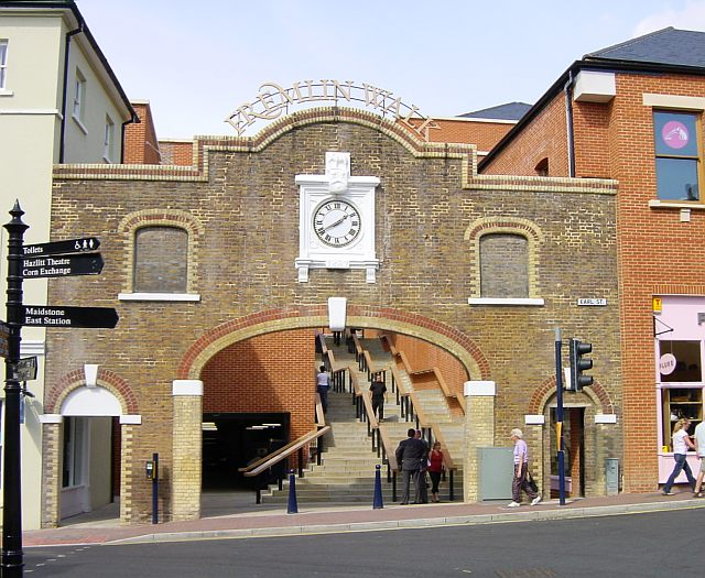 Fremlin Walk, Earl Street. The old gate to Fremlin's Brewery, reused as an entrance to the new shopping centre. The brewery's elephant logo can be seen above the clock but I don't know what has become of the golden elephant weather vane. Viewed from the northern end of Pudding Lane.